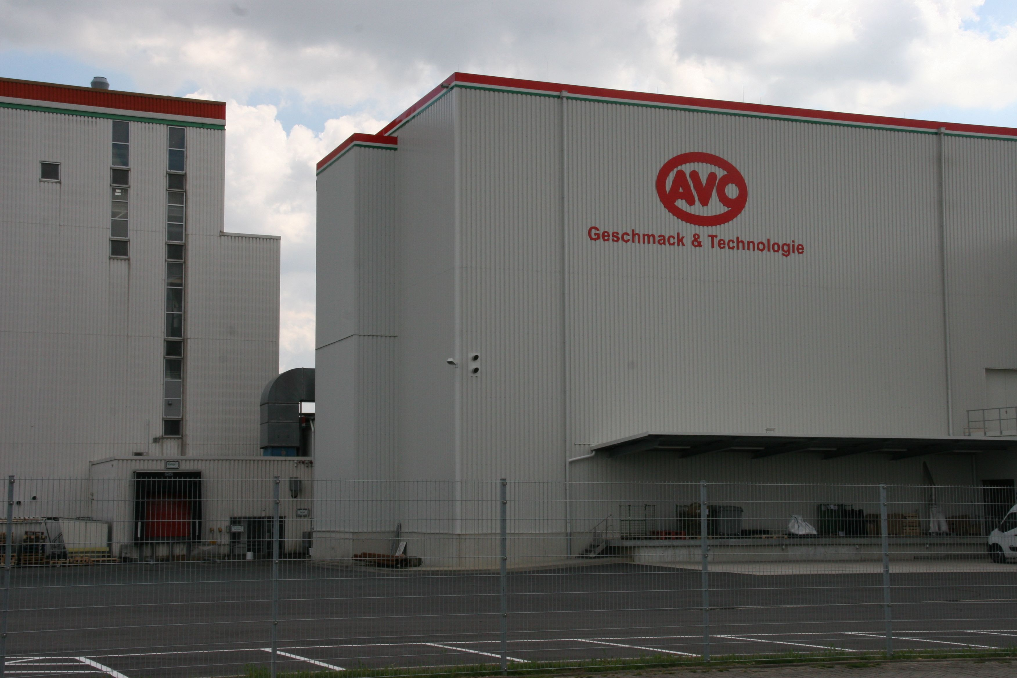 Belm: AVO Spice Trade